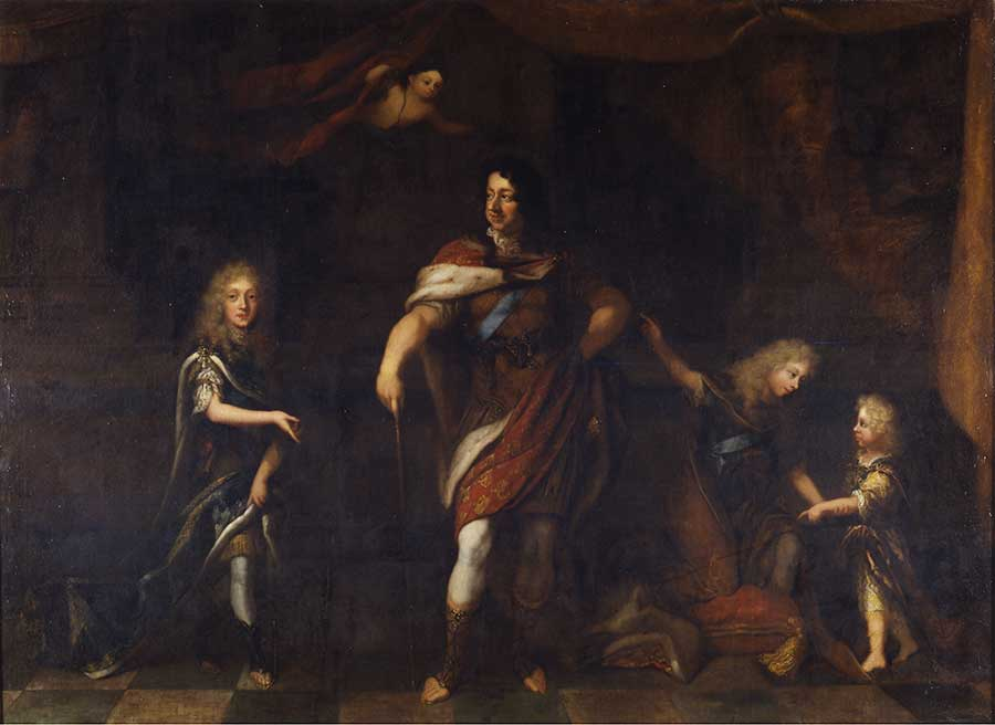 christian v of denmark-norway with his eldest son later Frederick iv and his other male children